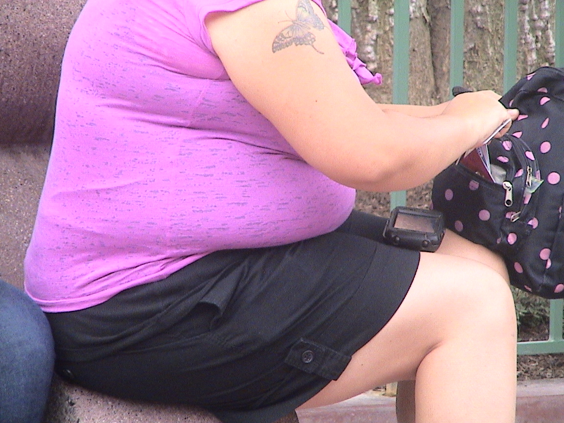 Obese woman with purple shirt, black skirt, and a butterfly tattoo on right upper arm